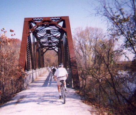 Description: Cyclists crossing a bridge on eastern part of the Katy Trail in Missouri. This bridge crosses the Femme Osage Creek near its outlet into the Missouri River. It is encountered about mile marker 57.4, near Defiance. Source: Photographed on November 7, 1999 by Kbh3rd.